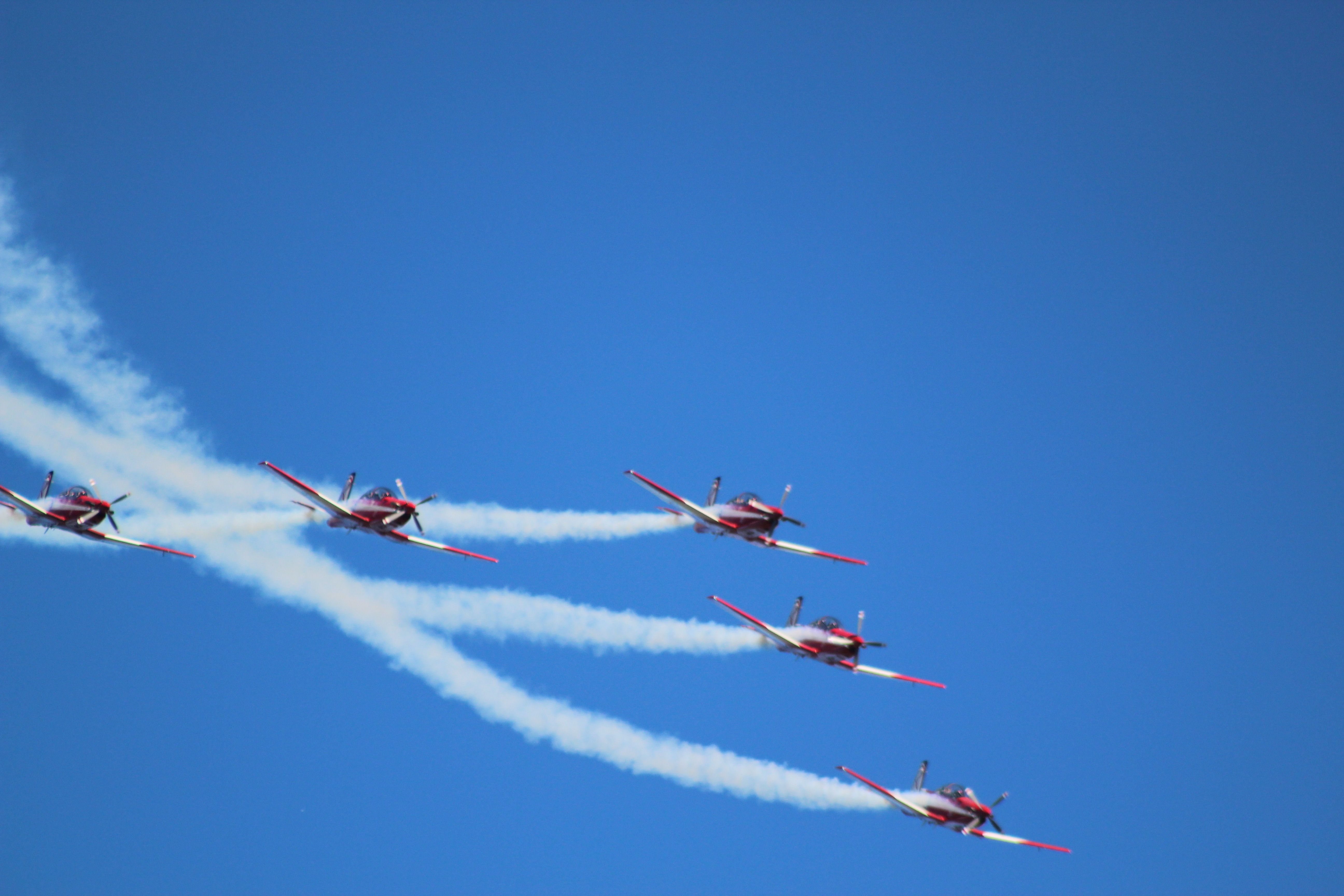 A shot of the Roulettes at the 2017 Wings over Illawarra show